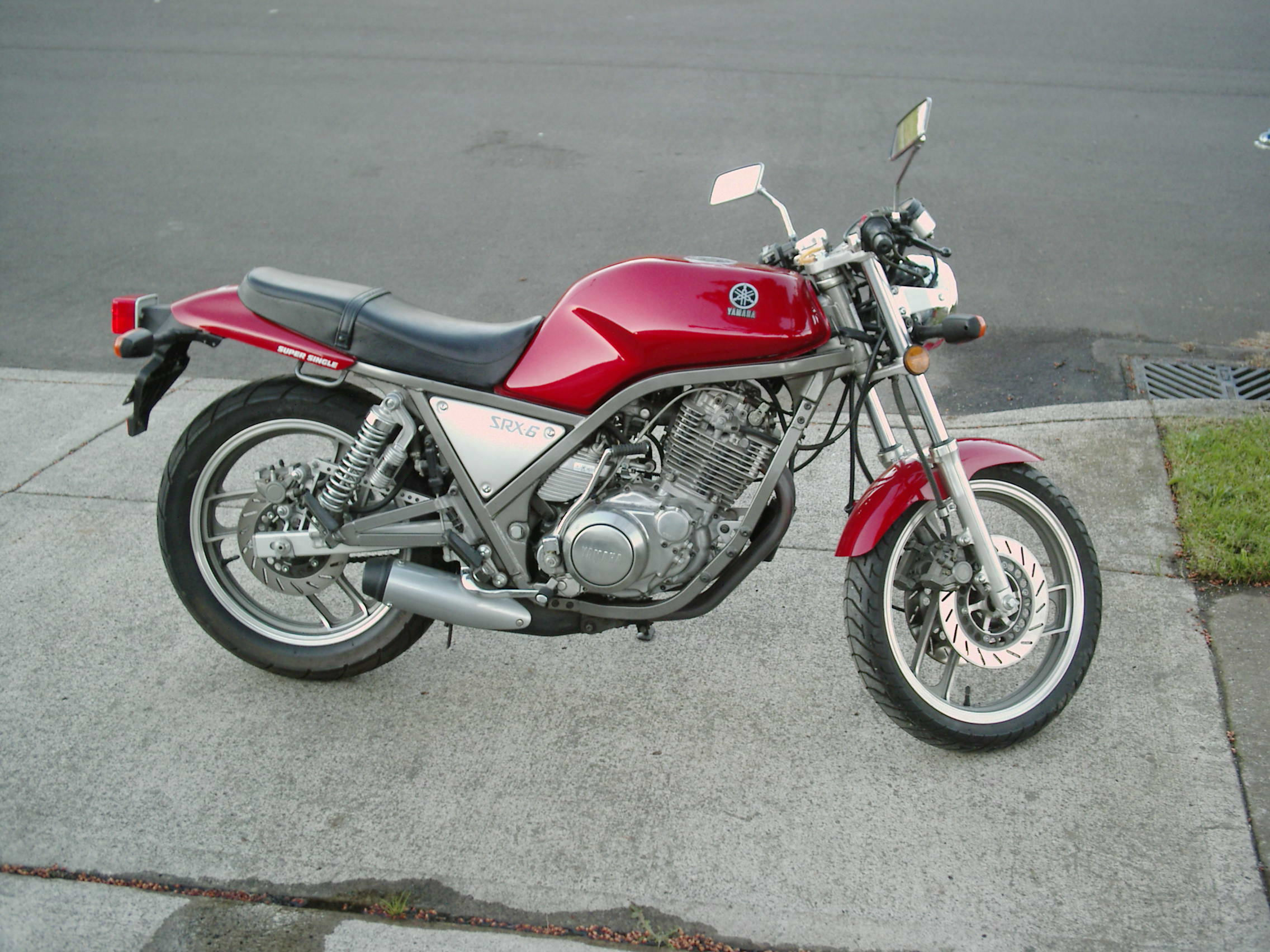 Stock 1986 Yamaha SRX 600